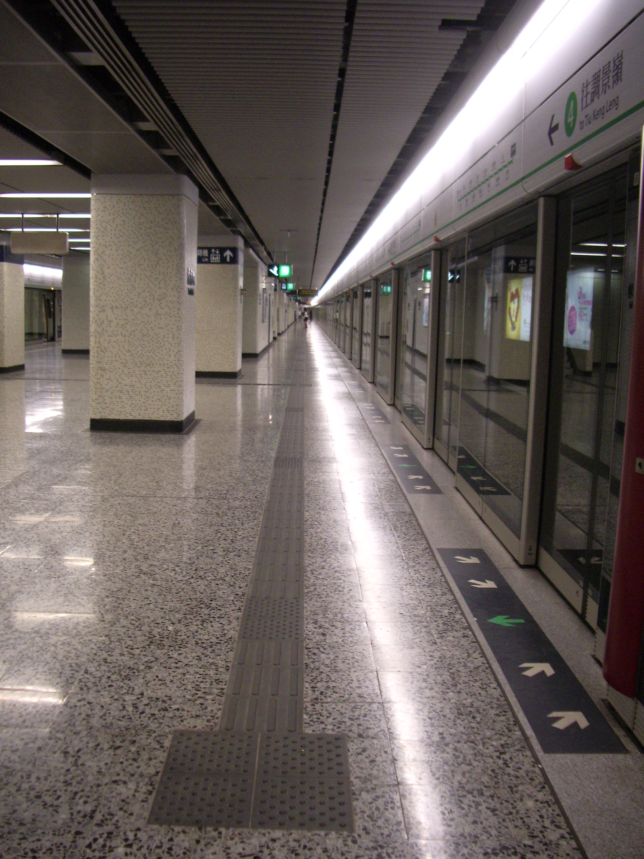 MTR Yau Ma Tei station Plaform 4